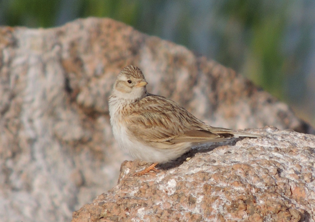 Asian short-toed lark in North-west Mongolia